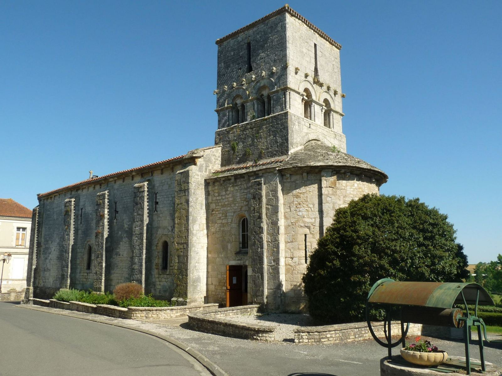 church of Saint-Angeau, Charente, SW France